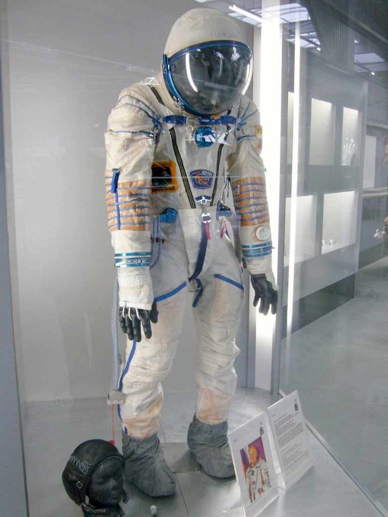 A Sokol-KV2 suit located at the Speyer Museum in Germany